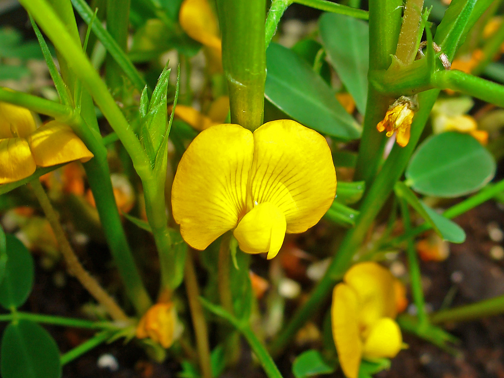 Arachis hypogaea, Fabaceae, Peanut, Groundnut, flower; Botanical Garden KIT, Karlsruhe, Germany. The dried fruits are used in homeopathy as remedy: Arachis hypogaea (Ara-h.)